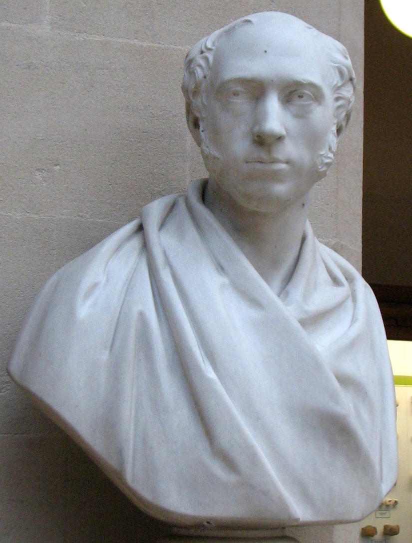 John Phillips, British geologist. Statue on permanent display in the Oxford University Museum of Natural History.